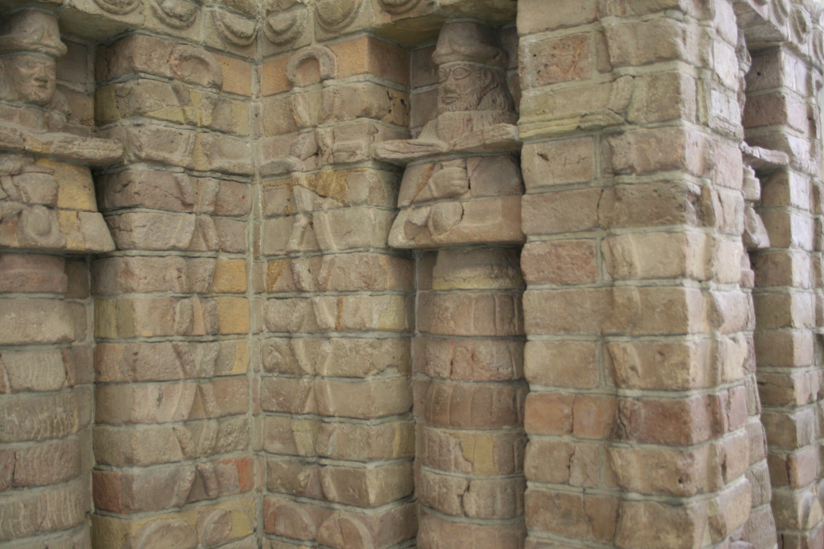 Vorderasiatisches Museum (Near East Museum), Berlin